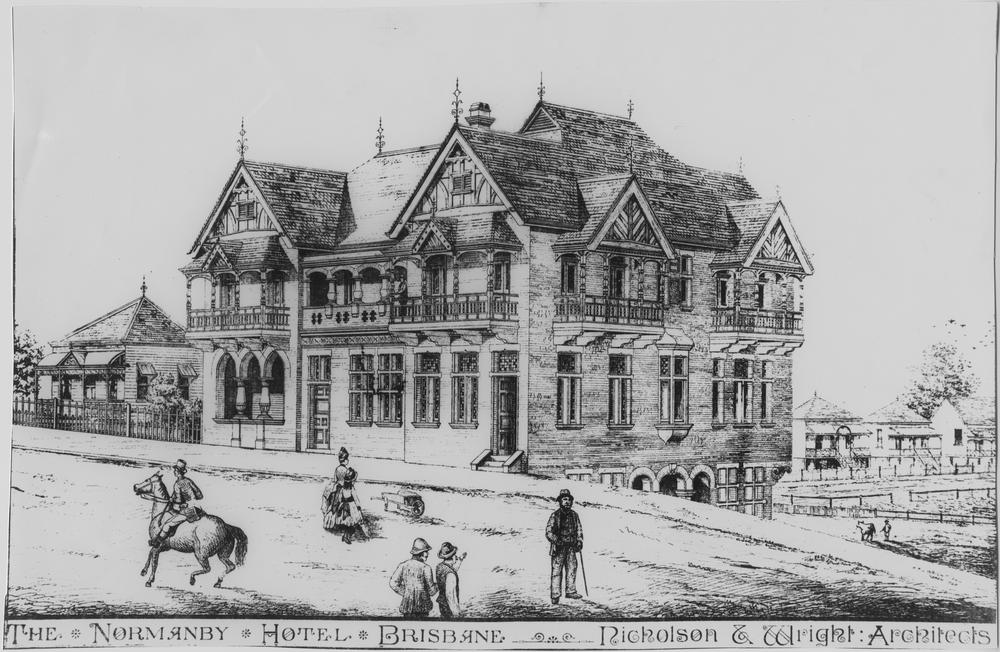 Architectural drawing of the Normanby Hotel, Brisbane. Architectural drawing of the Normanby Hotel, created by the architectural firm of Nicholson & Wright, Architects. It is the front and side view of the hotel as seen from the street. A small cottage is shown to the left of the hotel. Several people are walking in the street and a horseman is riding along the street.